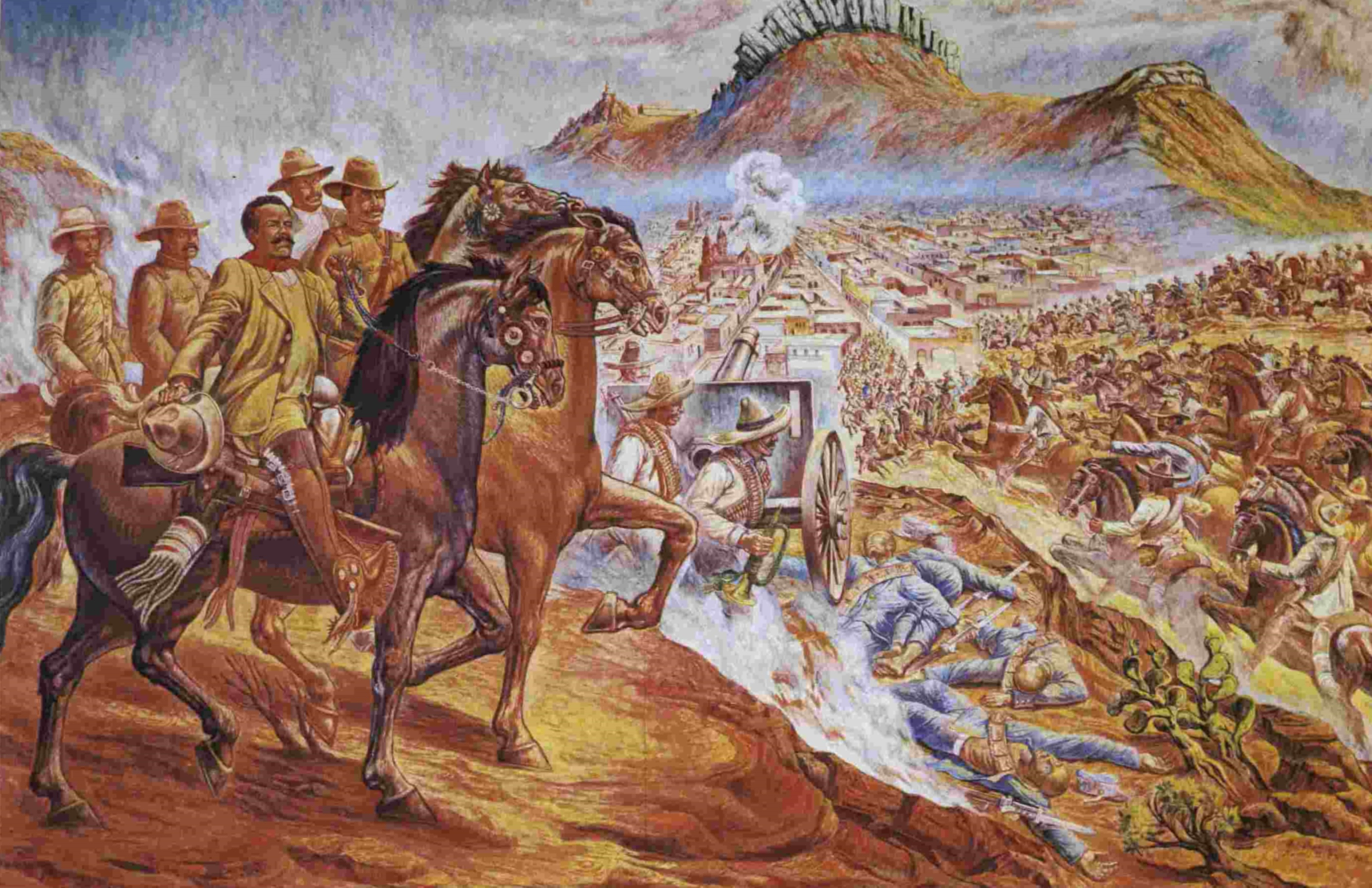 Painting of Taking of Zacatecas, the largest battle of the Mexican Revolution, by Ángel Boliver, Museo Nacional de Historia